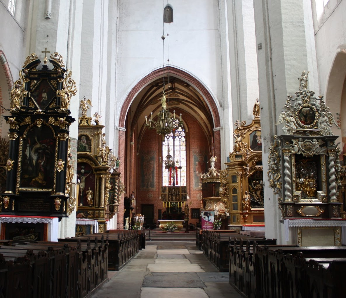 Toruń, Church of St. John the Baptist and St. John the Evangelist, Interior